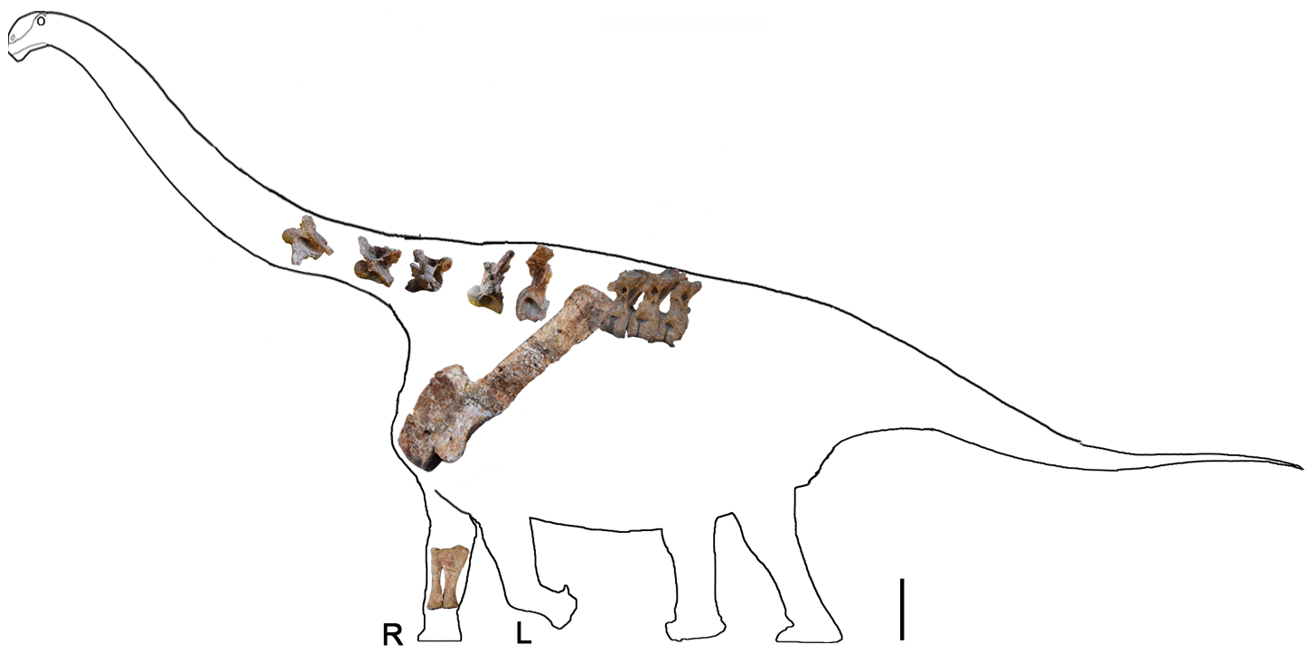 Skeletal reconstruction of the preserved postcranial elements of the holotype specimen of Yongjinglong datangi (GSGM ZH(08)-04). All elements are shown in left lateral view except the right ulna and radius which are in right medial view. Abbreviations: R, right; L, left. Scale bar equals 600 mm.